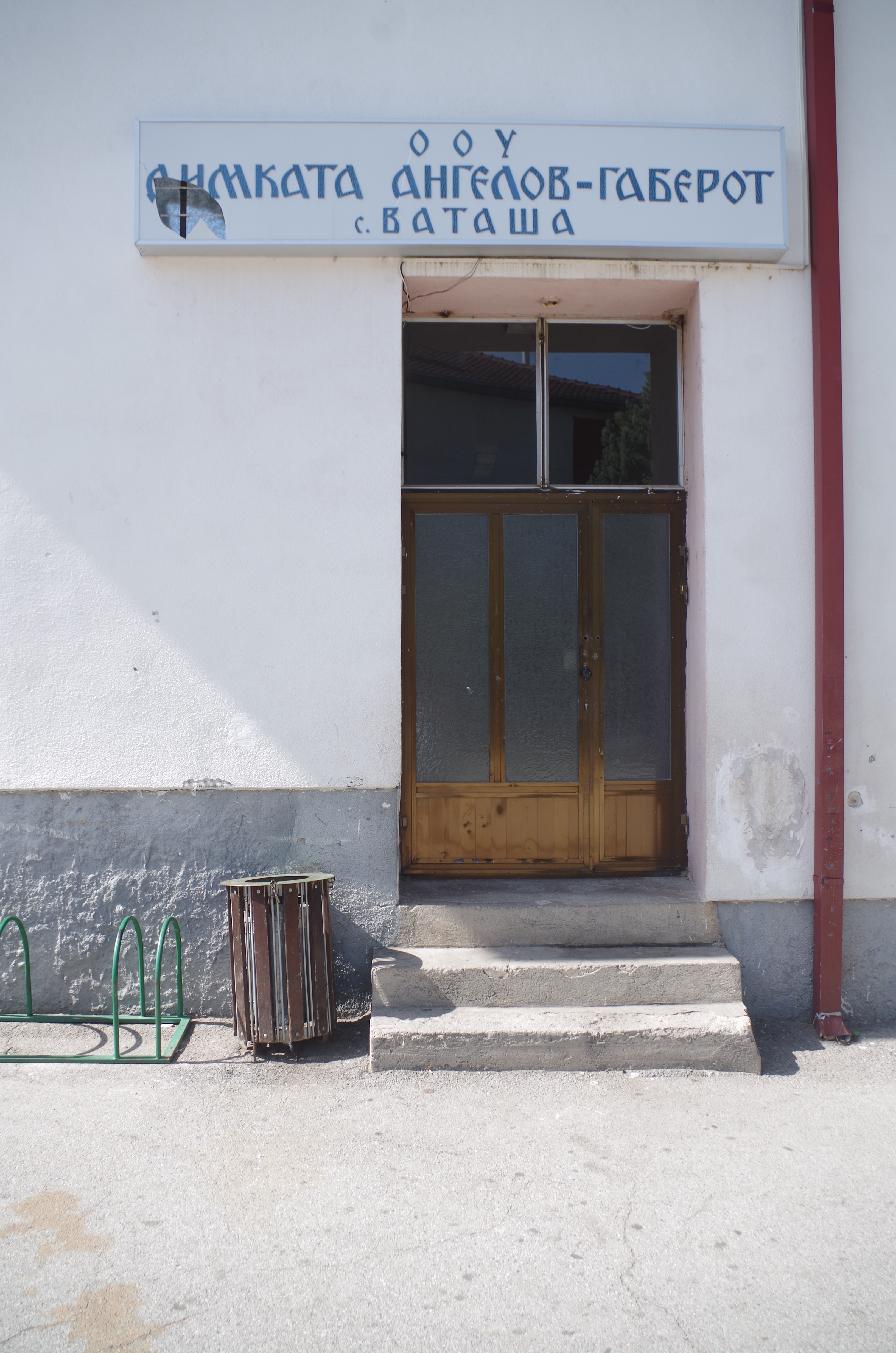 The entrance of Dimkata Angelov - Gaberot primary school in the village of Vataša